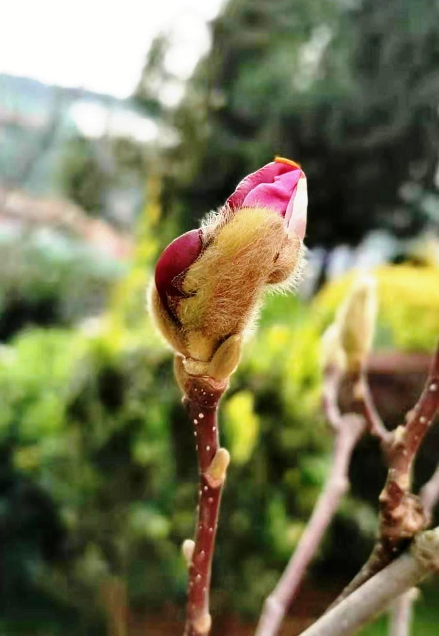 Magnolia liliiflora. Mile City, Yunnan Province, China.